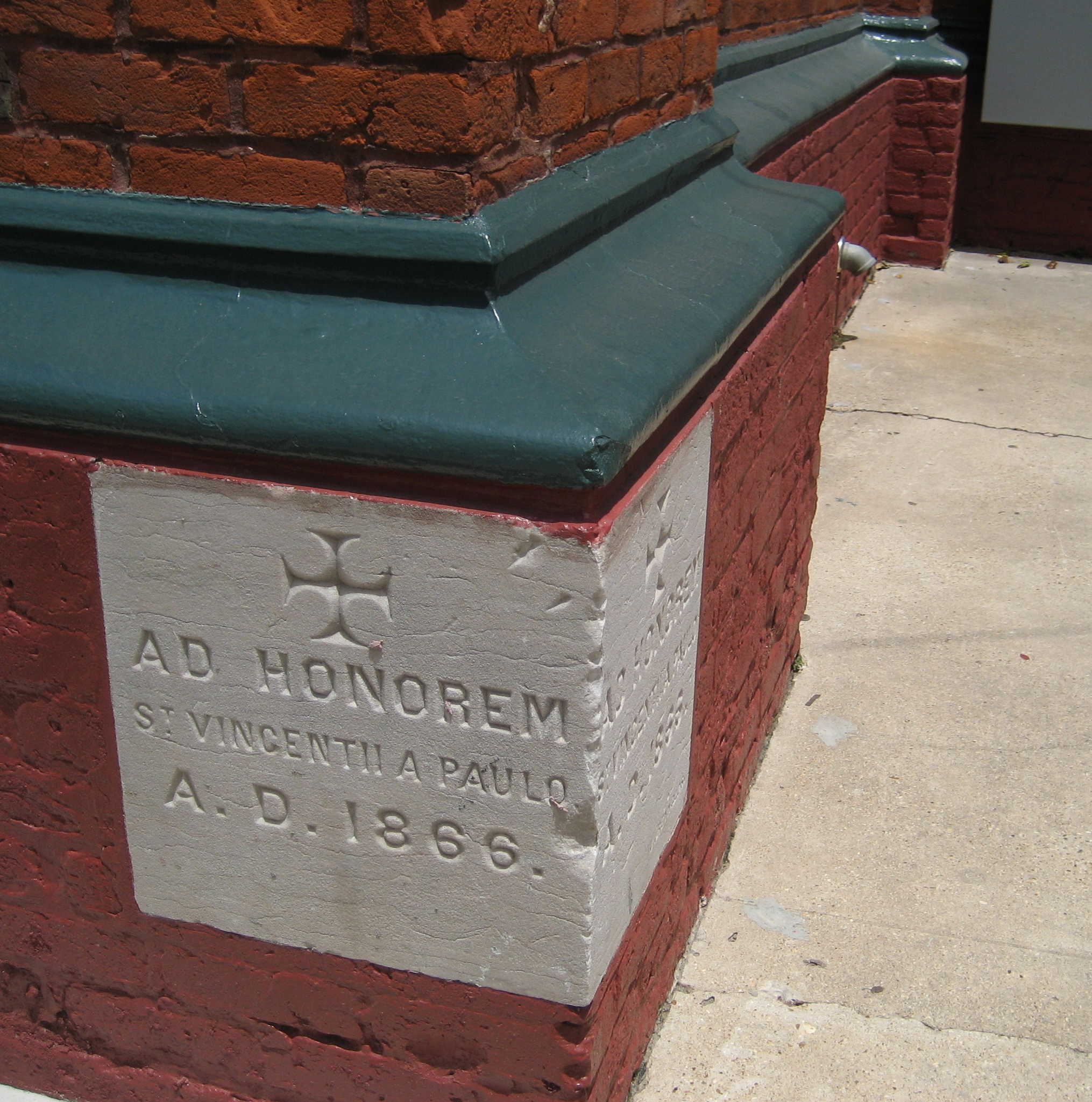 Cornerstone, St. Vincent De Paul Church, Bywater neighborhood of New Orleans